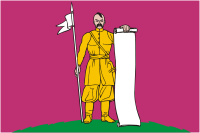 Staroscherbinovskoe (Krasnodar krai), flag